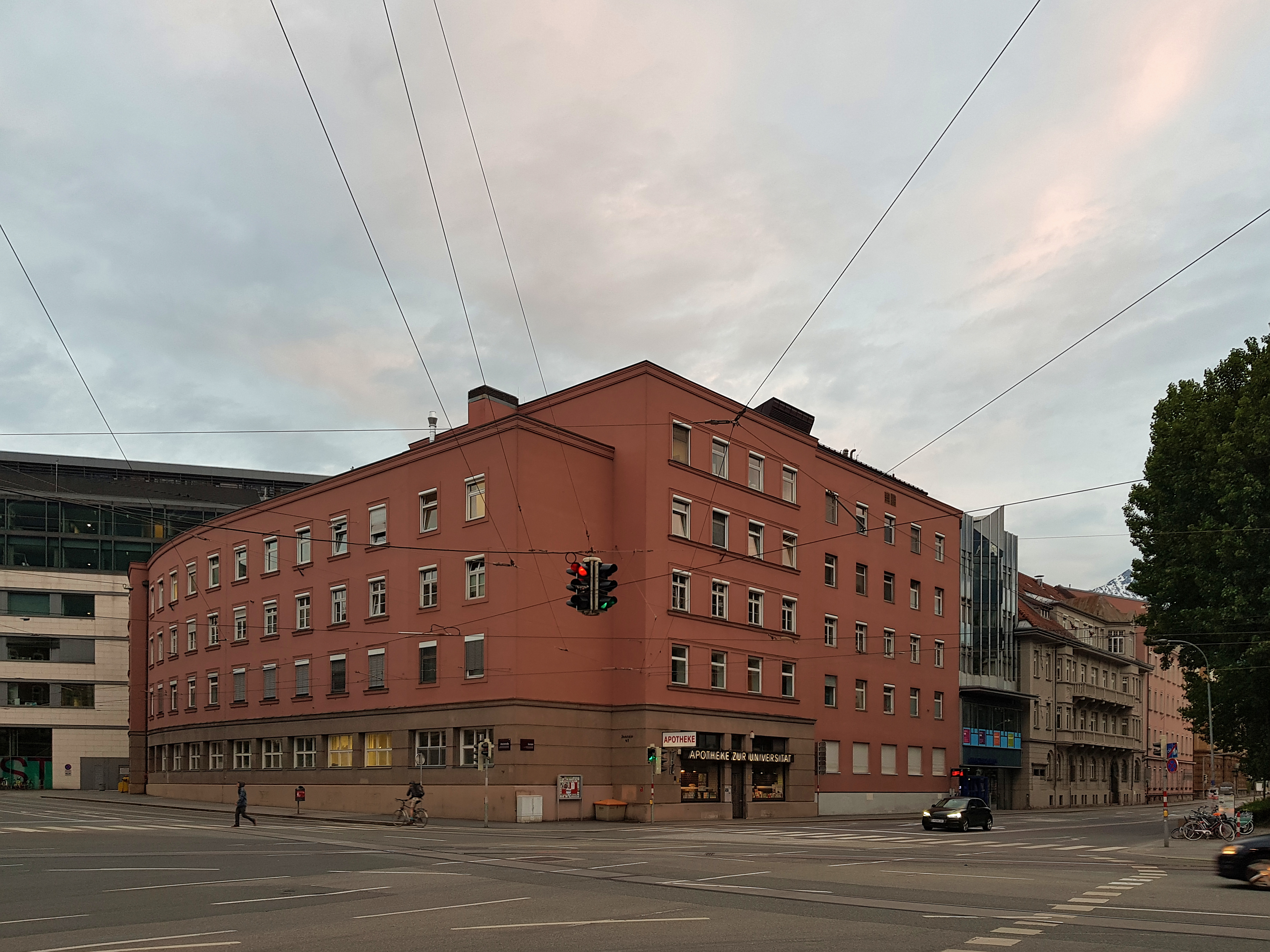 Innrain 47